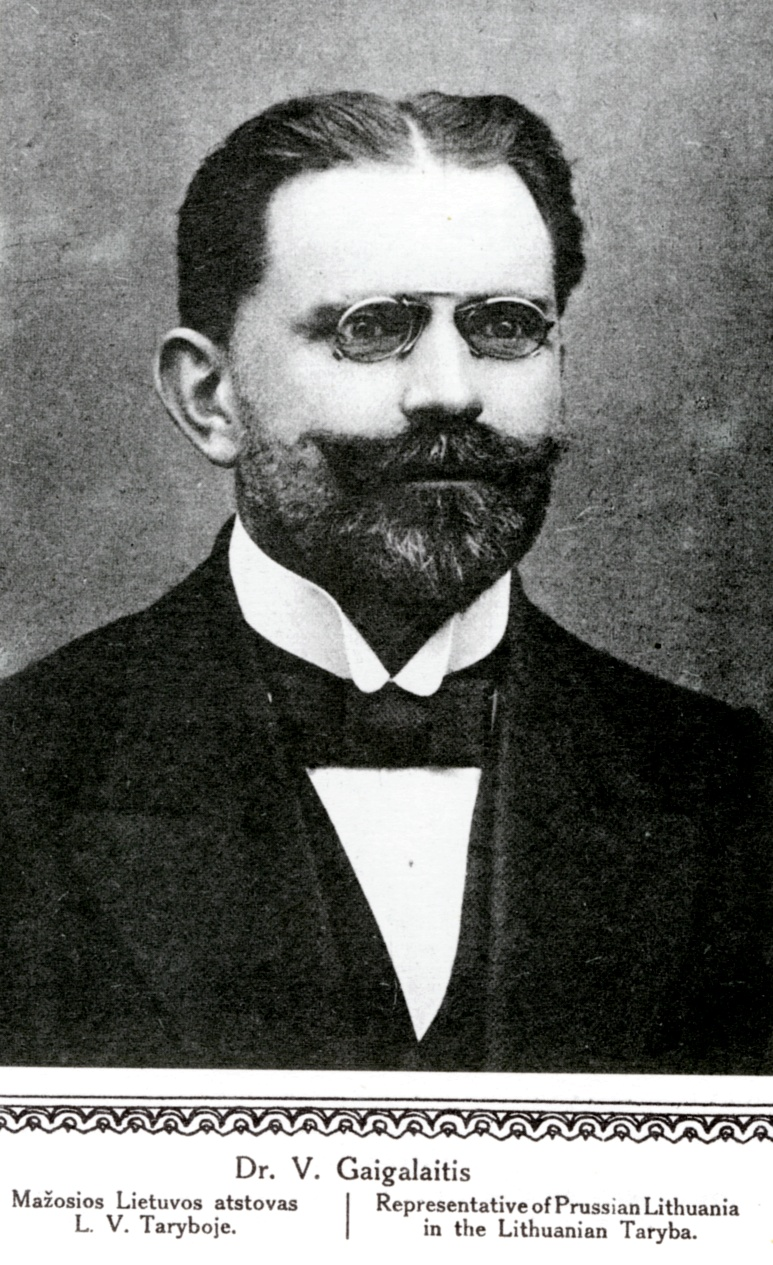 Vilius Gaigalaitis, priest from Lithuania Minor, member of Lithuanian Taryba